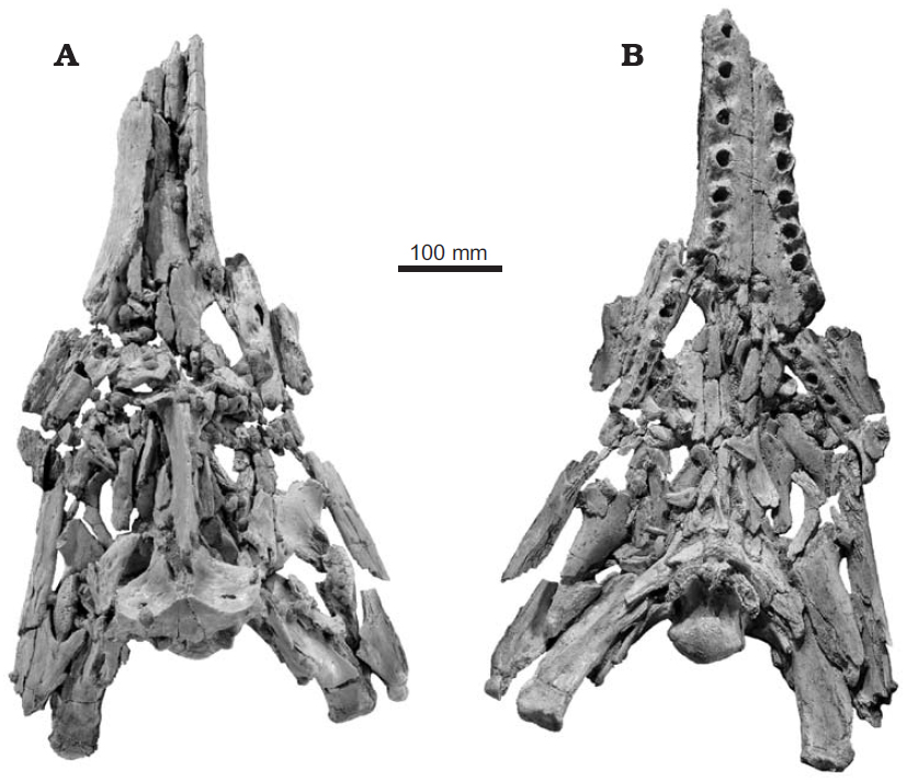 Arambourgisuchus khouribgaensis gen. et sp. nov., OCP DEK−GE 300, Sidi Chenane, Morocco, late Palaeocene, skull in dorsal (A) and ventral (B) views.